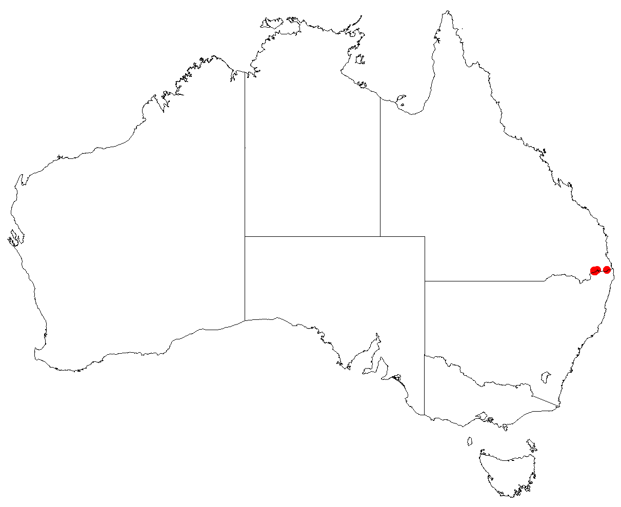 Australian distribution of Muellerina flexialabastra based on download from Australasian Virtual Herbarium May 9, 2018